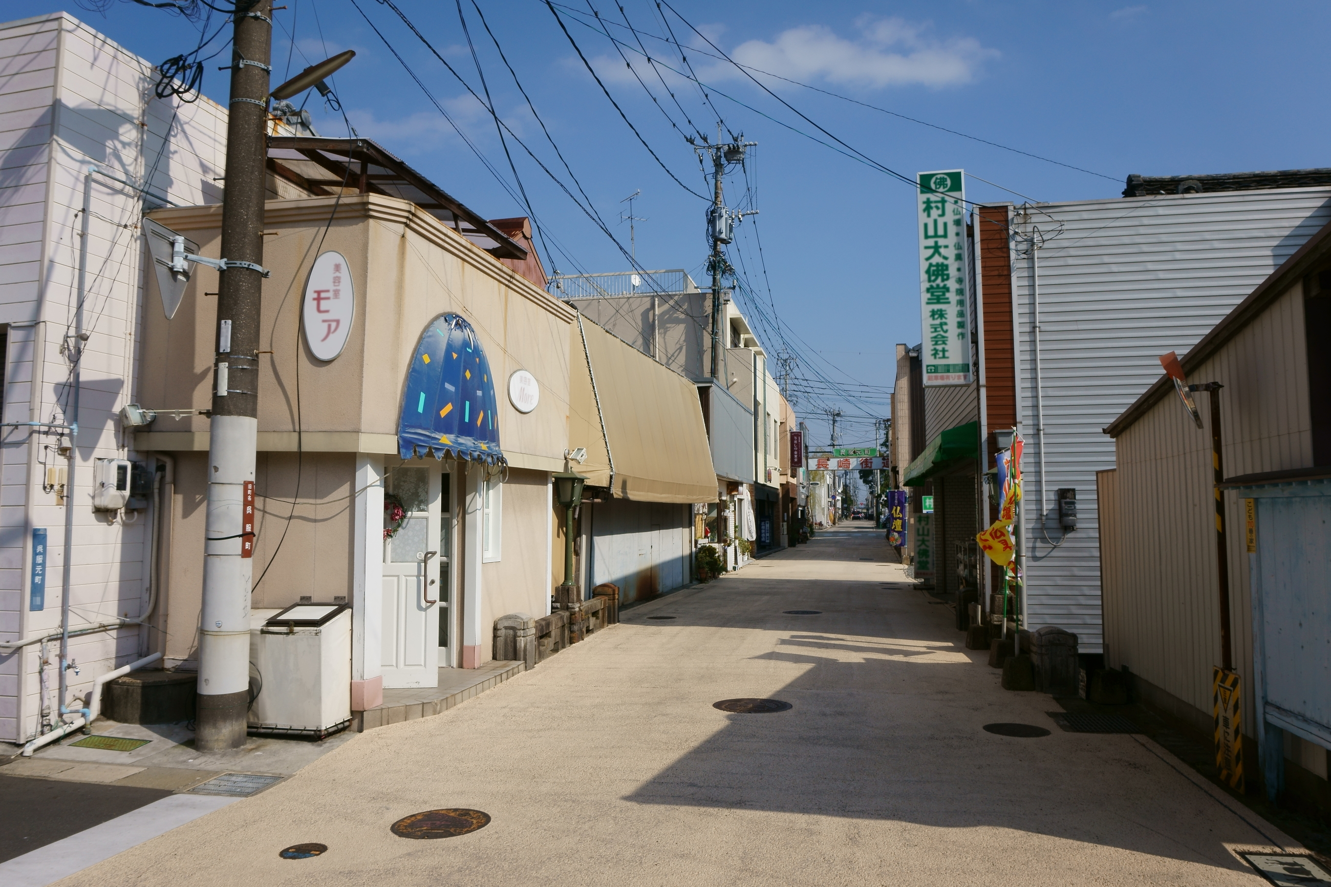 Nishiki(-dōri) street and Sarashi(-bashi) bridge in Gofukumotomachi, Saga city, Saga prefecture. There is a part of former Nagasaki Kaidō.